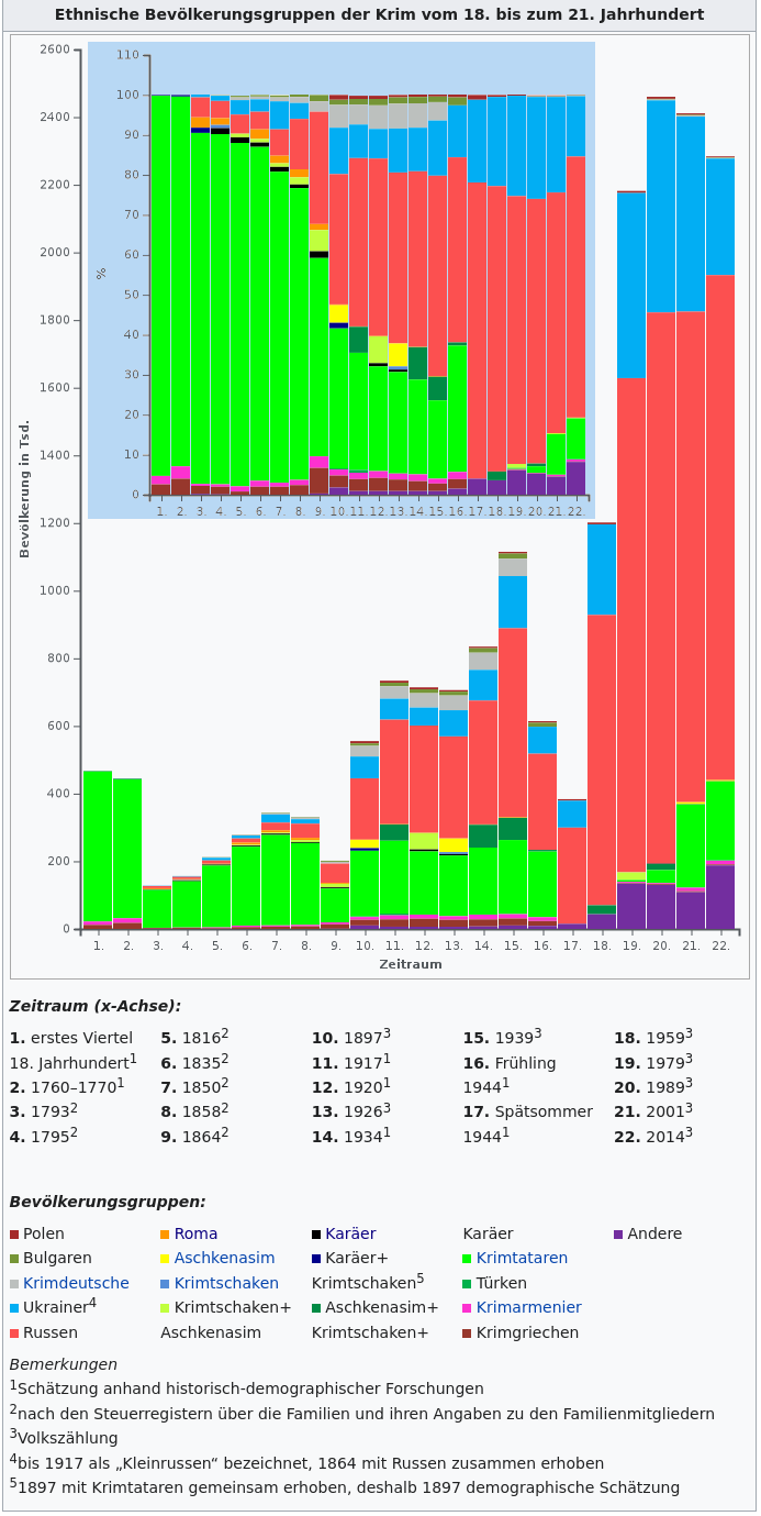 Ethnic Population of Crimea 18th–21st century.png. sources: Я.Е. Водарский, О.И. Елисеева, В.М. Кабузан: “НАСЕЛЕНИЕ КРЫМА В КОНЦЕ XVIII — КОНЦЕ XX ВЕКОВ. (Численность, размещение, этнический состав).” Москва РАН 3003 (Ya.E. Vodarskiy, O.I. Yeliseyeva, V.M. Karabuzan: “Population of Crimea from End 18th-End 20th century. (Size, Location, Ethnic Composition)” Moscow Russian Academy of Science 2003.) see e.g. chapters about 18th century-1897. Ukrainian census 2001 e.g.here or here (Data also compilated and referenced in chapter of Ukrainian Wikipedia-article about Crimean population "Ethnic Distribution of Crimea from End 18th– Beginning of 21st century.", the Graph:Chart is here)